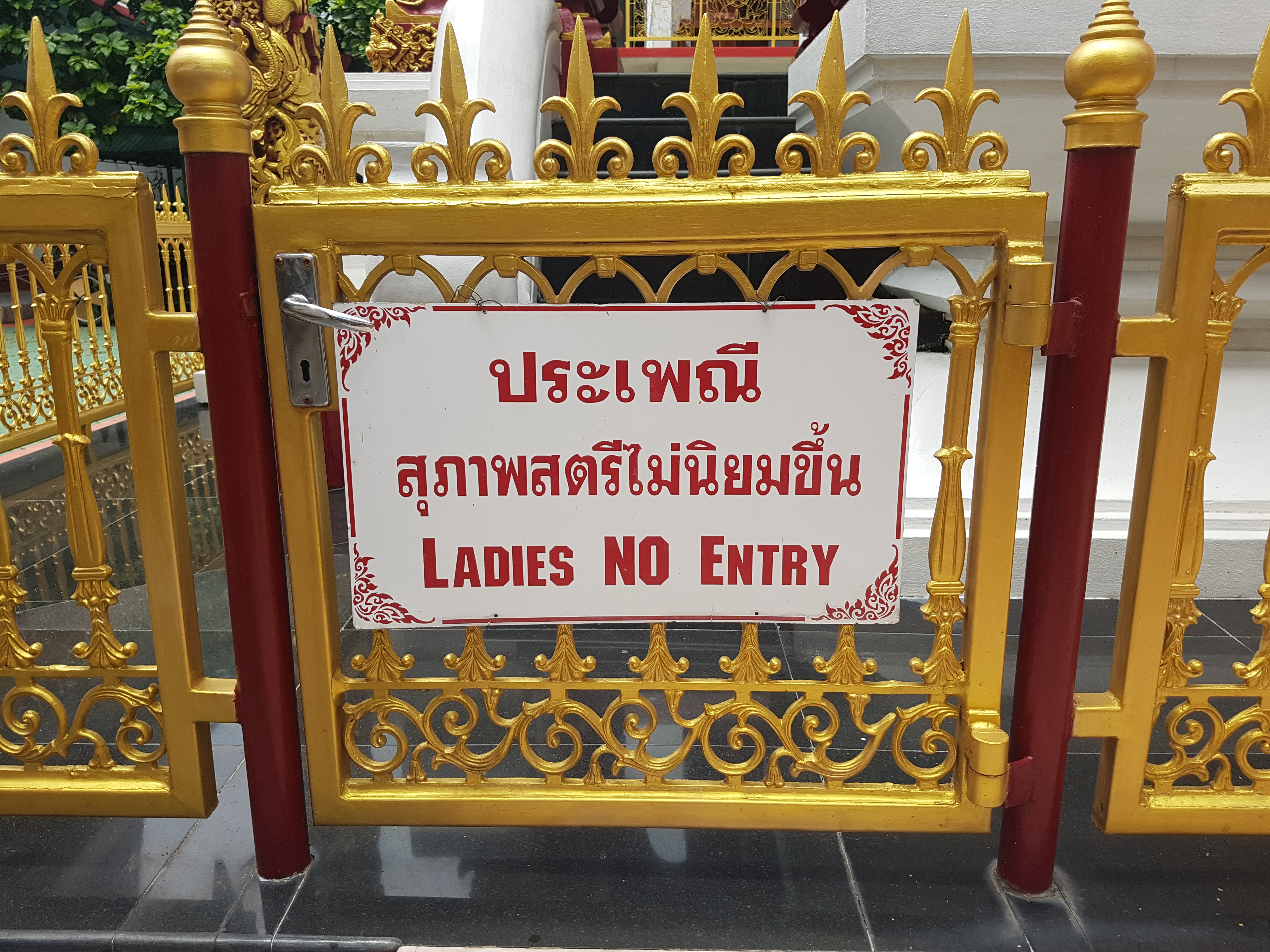 Wat Klang Wiang (วัดกลางเวียง), a Buddhist temple in Mueang Chiang Rai District, Chiang Rai Province, Thailand.